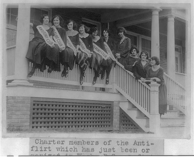 Members of the Anti-Flirt Club 1926 Found here: [1] where it states "The Library of Congress is unaware of any restrictions on the use of the images." No known restrictions